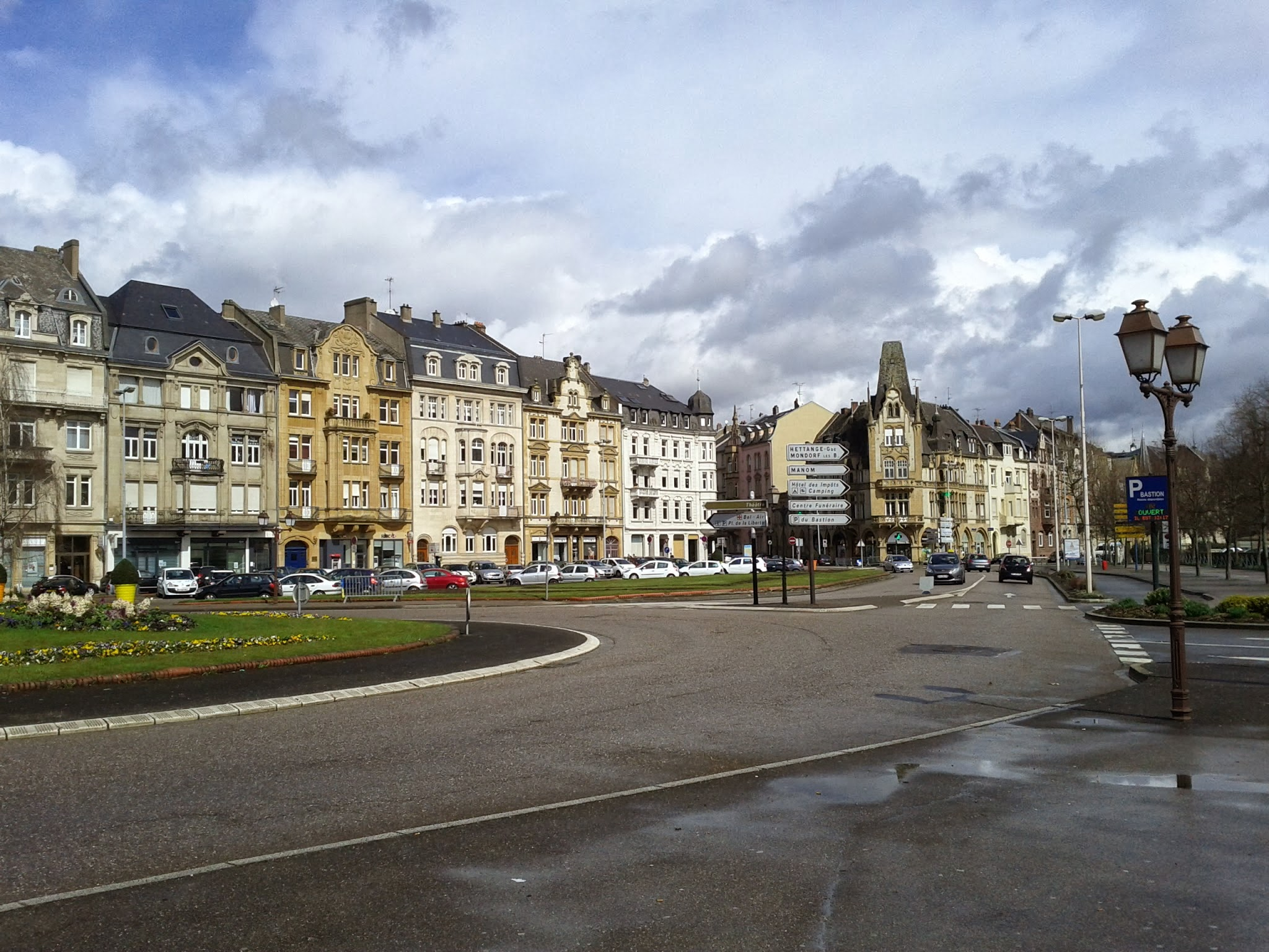 Thionville